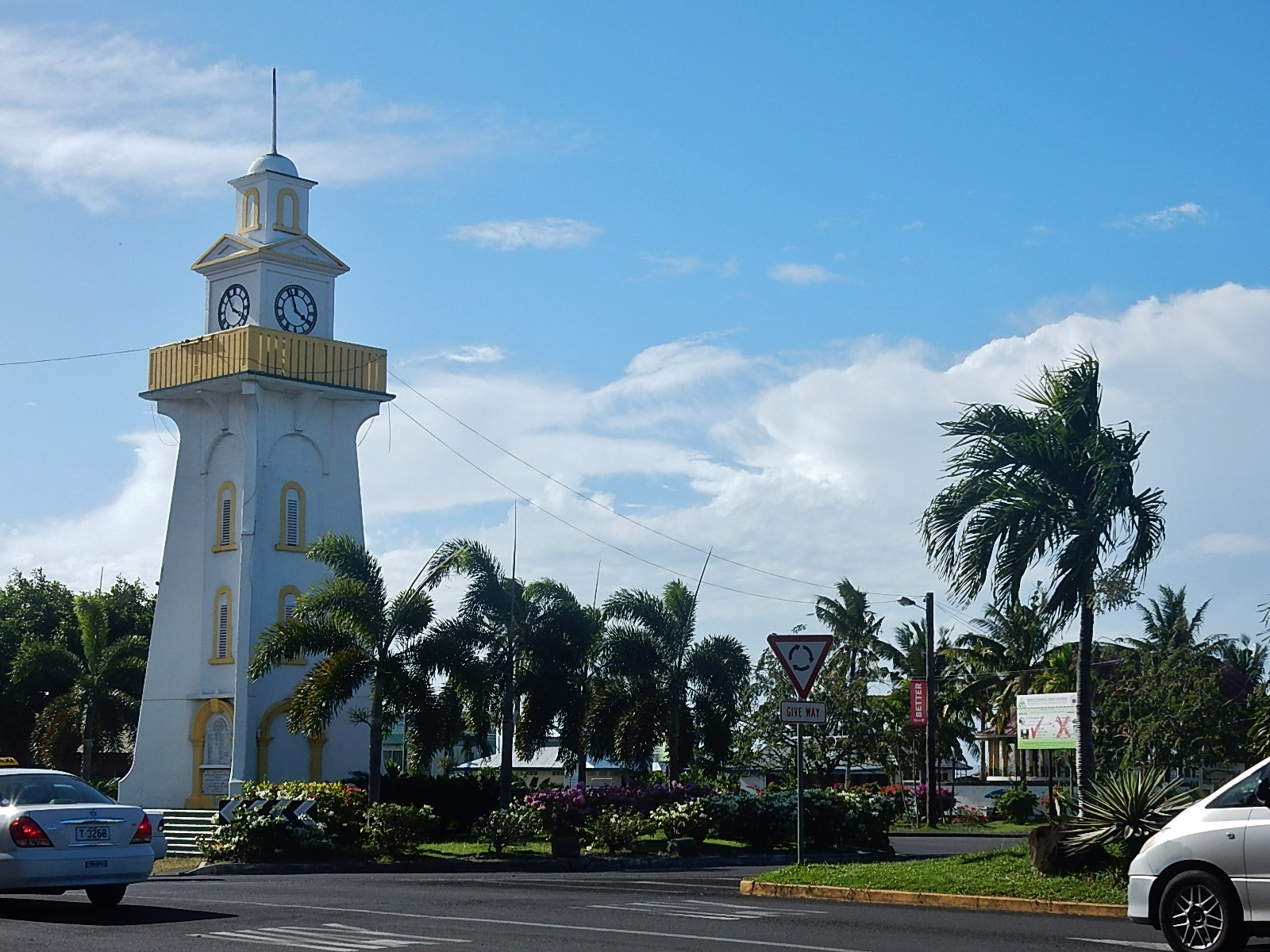 Clock Tower